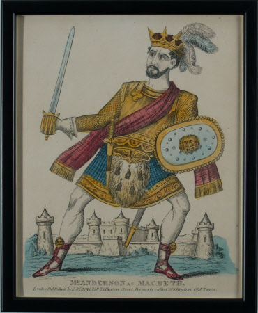 James Robertson Anderson (1811-1895) as 'Macbeth' in William Shakespeare's 'Macbeth'